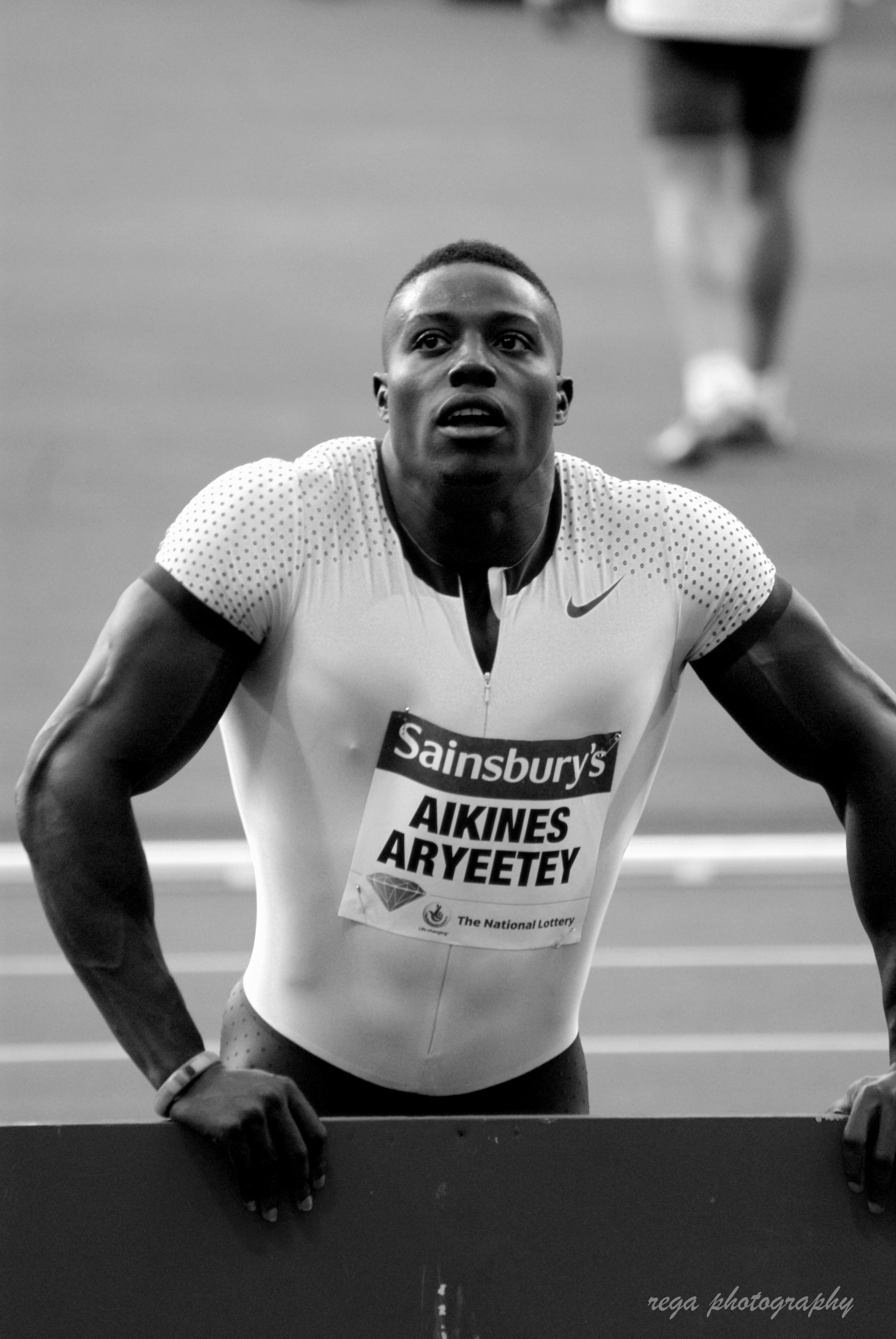 Harry Aikines Aryeetey - waiting for results